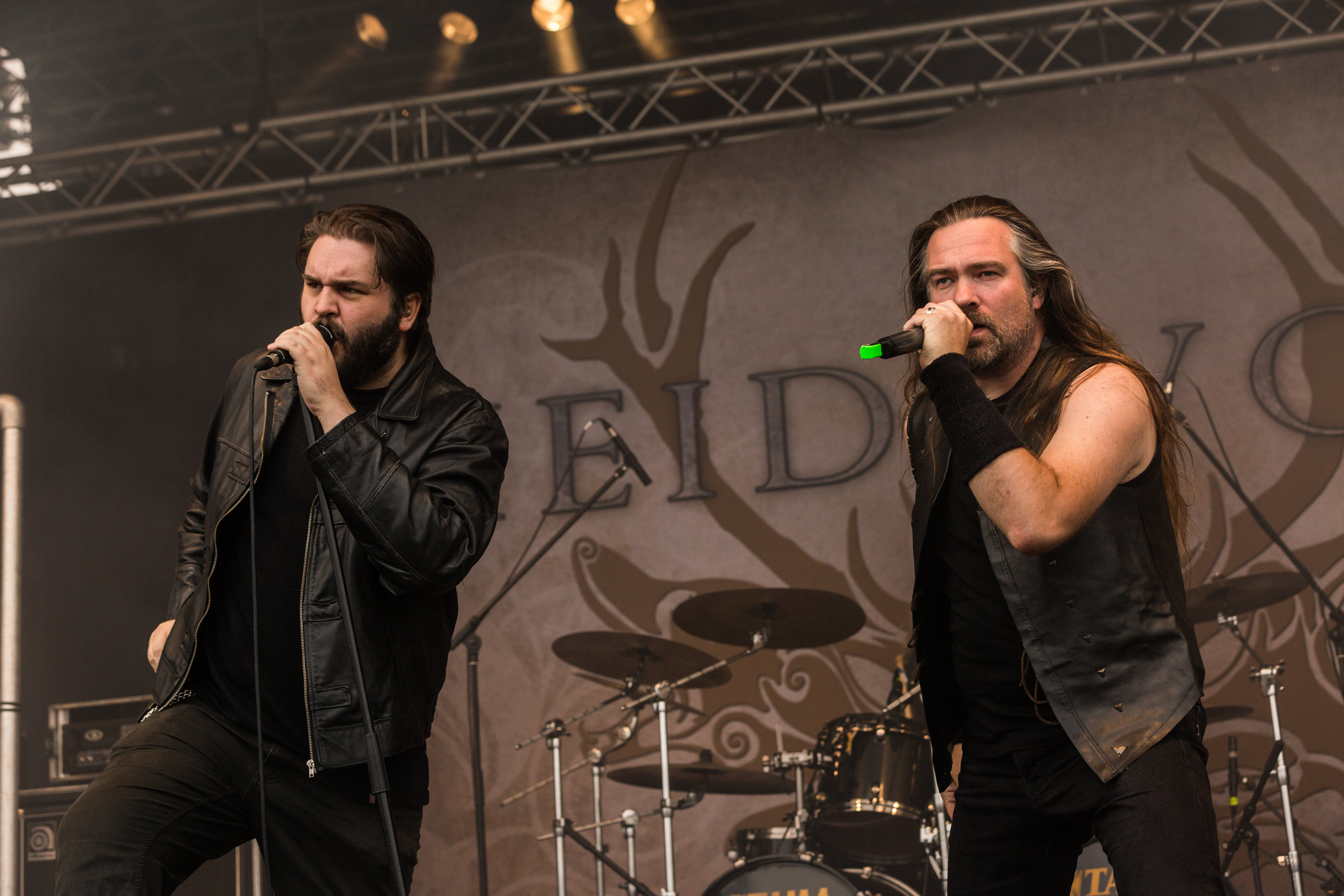 The Dutch folk an pagan metal band Heidevolk at the Metal Frenzy 2017 in Gardelegen/Germany.